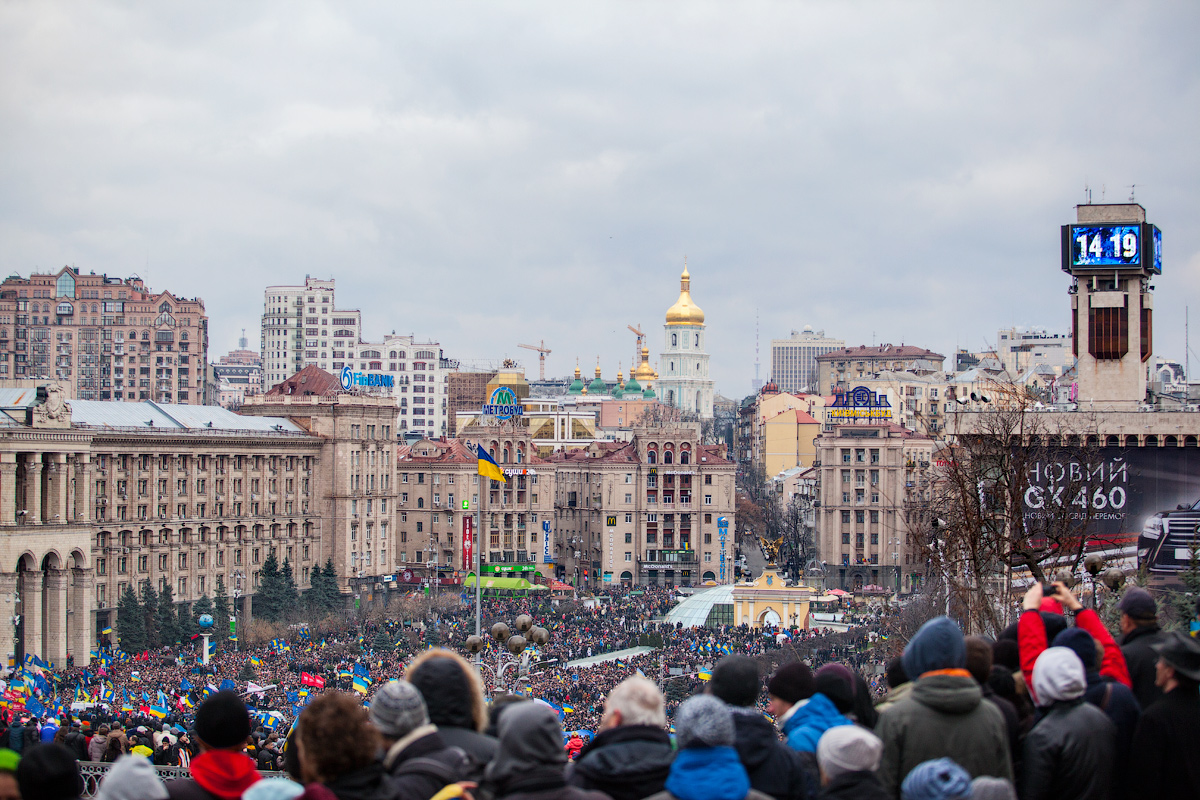 Euromaidan in Kyiv on 1 December 2013 by Nwssa Gnatoush